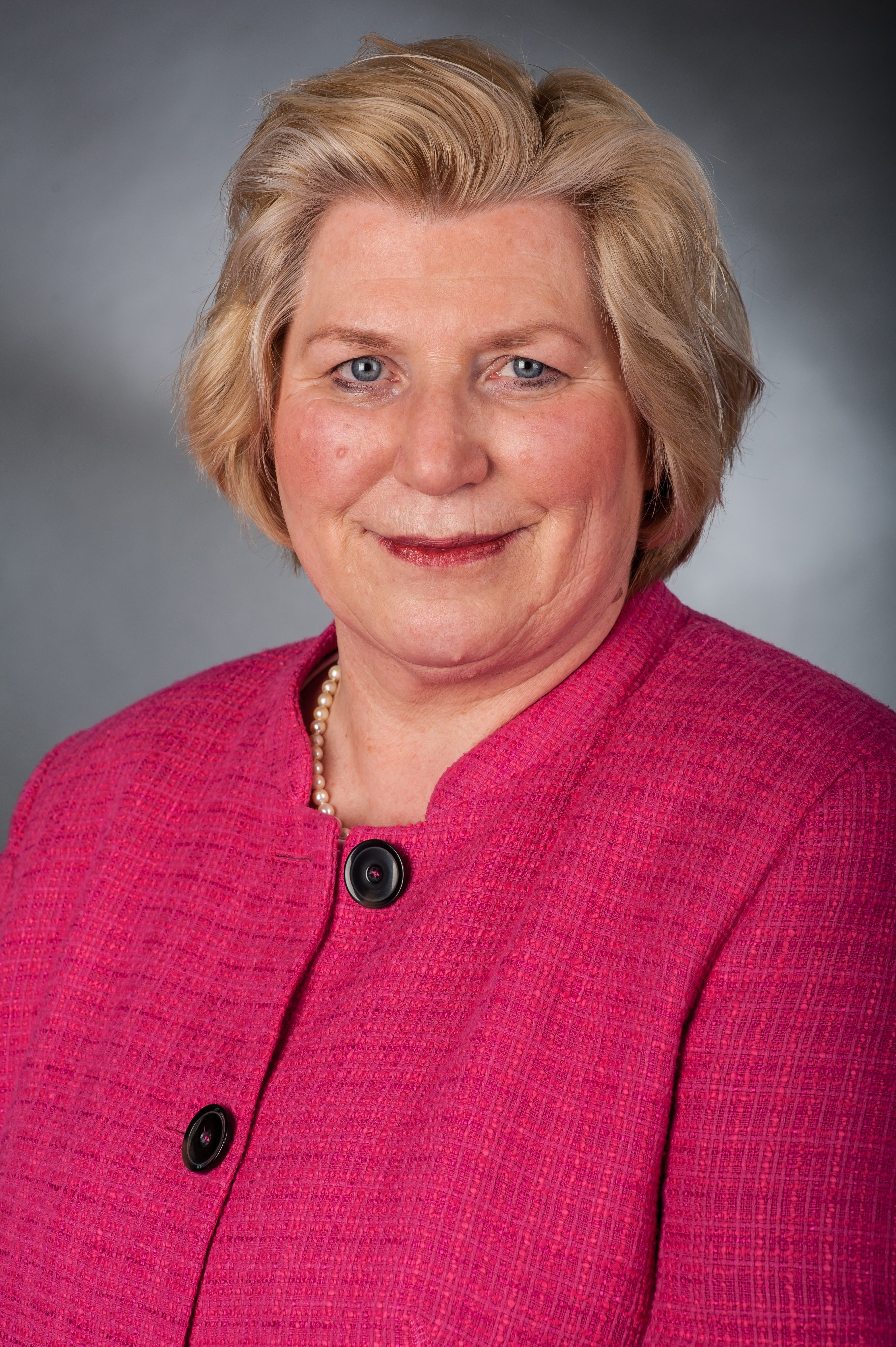 Wikipedia im Landtag – Niedersachsen 17. bis 18. April 2013 in Hannover Personality rights warningAlthough this work is freely licensed or in the public domain, the person(s) shown may have rights that legally restrict certain re-uses unless those depicted consent to such uses. In these cases, a model release or other evidence of consent could protect you from infringement claims.